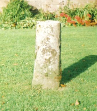 A Scottish staddle stone without its cap, in front of the Coach House, Cunninghamhead, Ayrshire